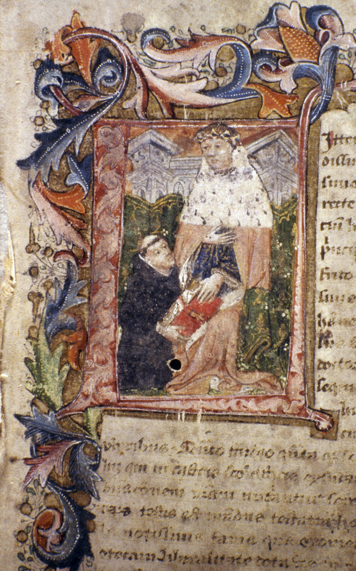 Historiated initial from John Capgrave's Commentary on Exodus showing Capgrave presenting his manuscript to Humphrey, Duke of Gloucester. One of three volumes remaining from the original bequest of the Duke Humfrey Library in Oxford University